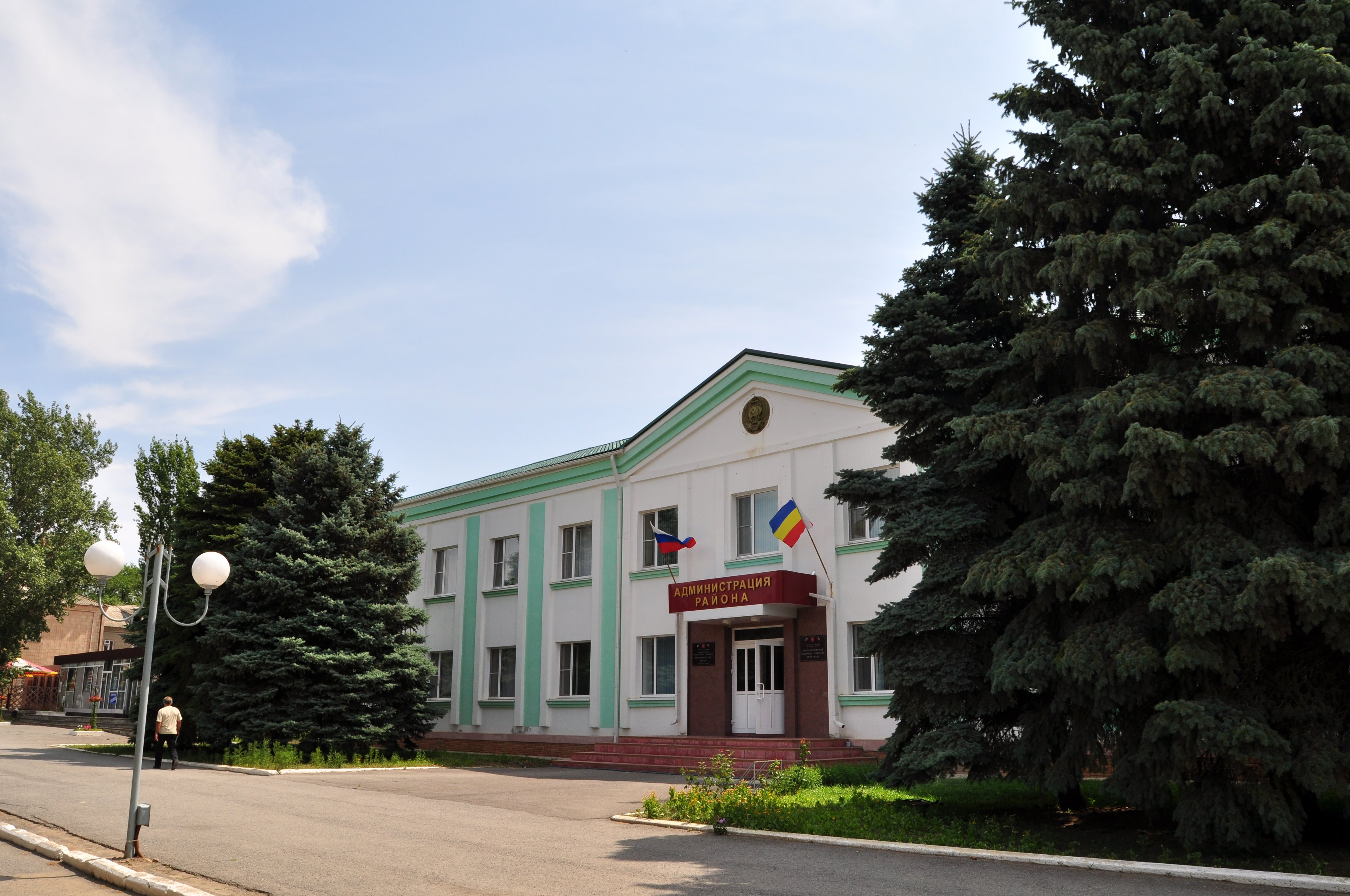 Zimovniki the administration Building. Rostov region